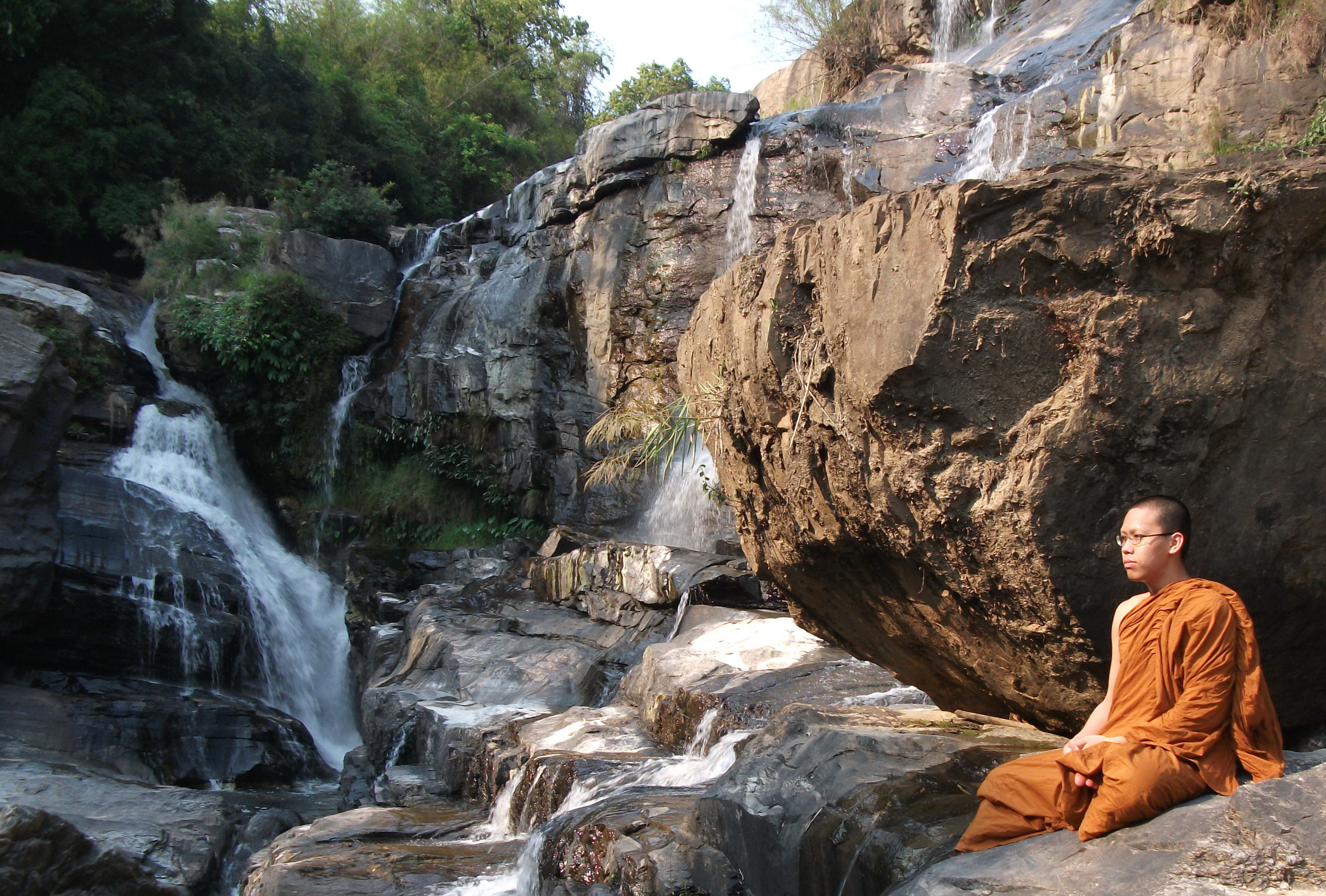 Buddhist monk in Mae Klang WaterfallLocation: Doi Intha Non National Park Thailand.